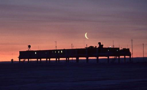 Image of the British Antarctic Survey research station Halley 5 taken in winter 1999.